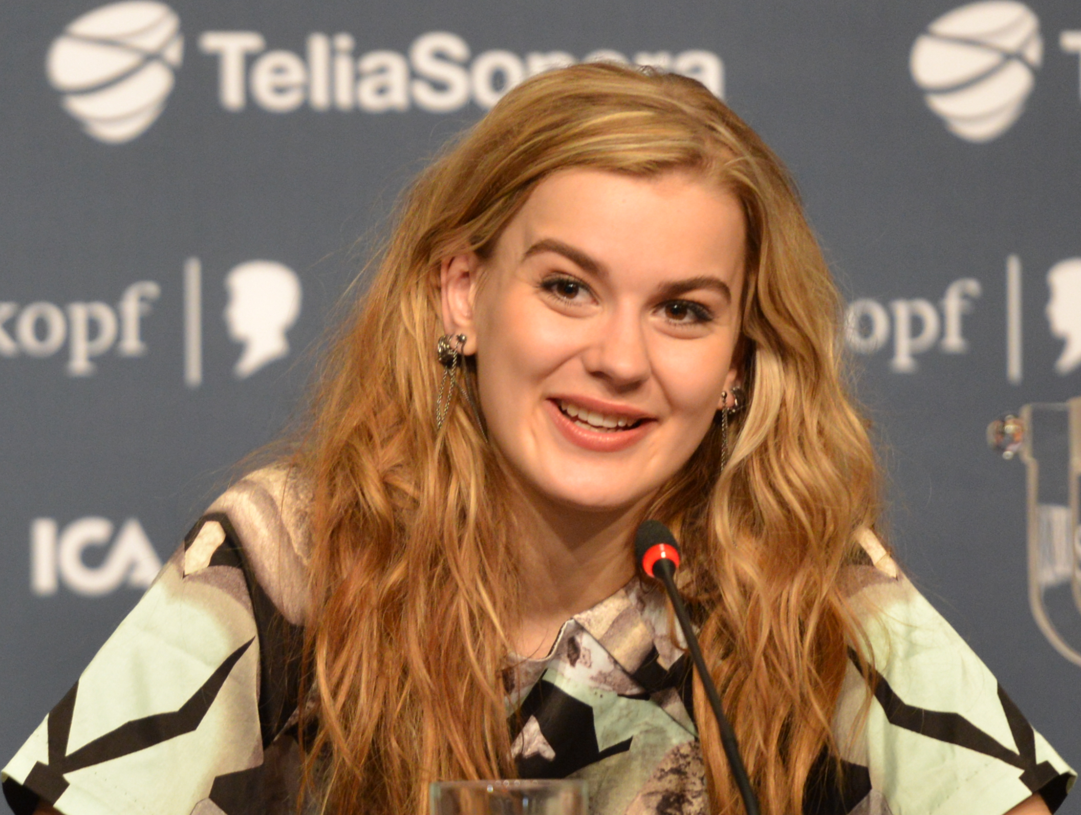 Emmelie de Forest at the winners press conference, right after winning the Eurovision Song Contest 2013 in Malmö. (Help translate this text)